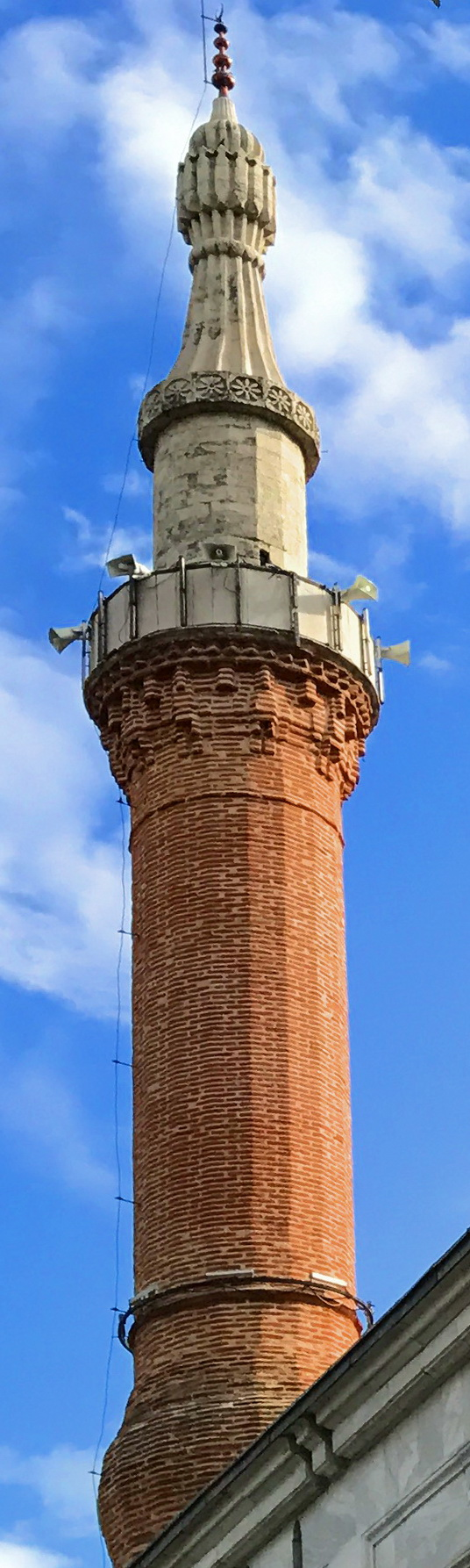 Green Mosque of Bursa, Turkey, 2017. Green Mosque (Turkish: Yeşil Camii, "Yeşil Mosque"), also known as Mosque of Sultan Mehmed I, is a part of the larger complex (a külliye) located on the east side of Bursa, Turkey, the former capital of the Ottoman Turks before they captured Constantinople in 1453. The complex consists of a mosque, türbe, madrasah, kitchen and bath.